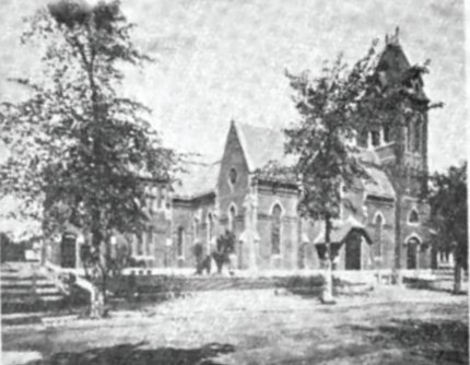 Photo of the Williston Congregational Church in Portland Maine where in 1881 Pastor Francis Edward Clark founded the Christian Endeavor Society.